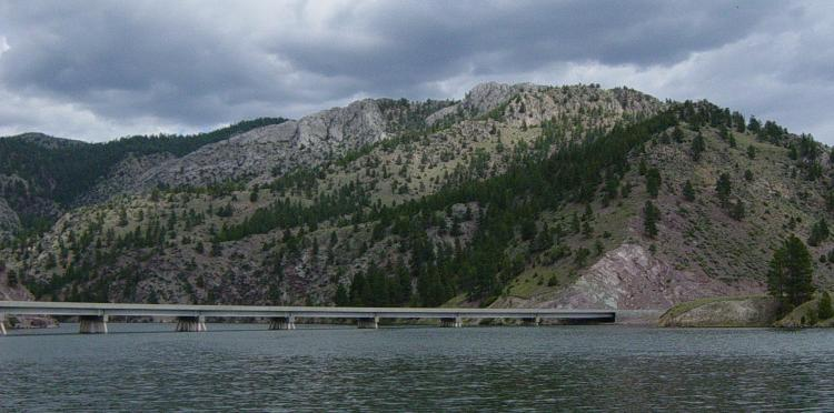 Photo taken by Daniel Mayer and released under terms of the GNU FDL.